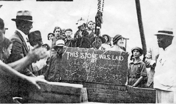 Tientsin Grammar School was laid a foundation